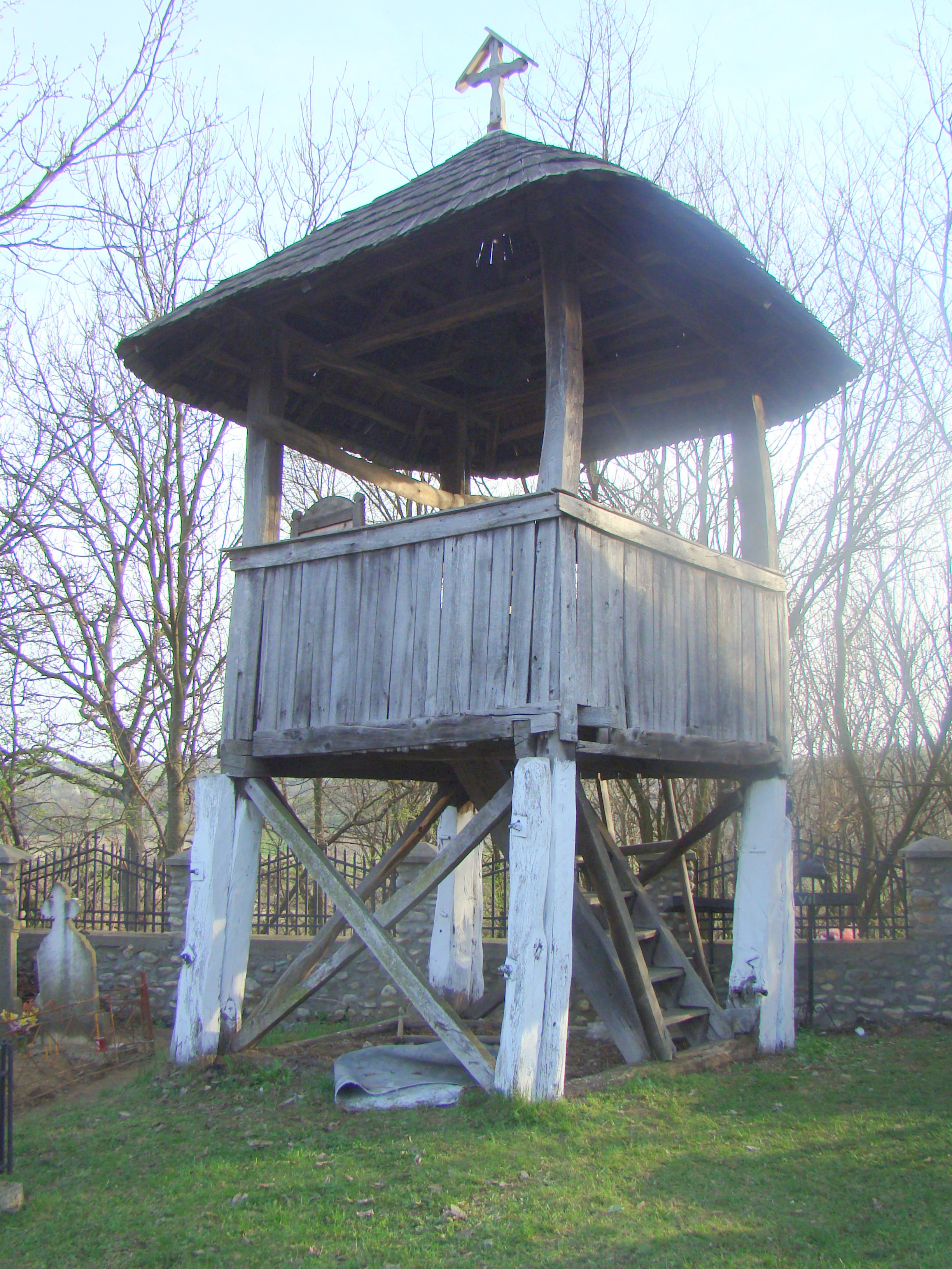 Wooden church in Artanu, Gorj county, Romania